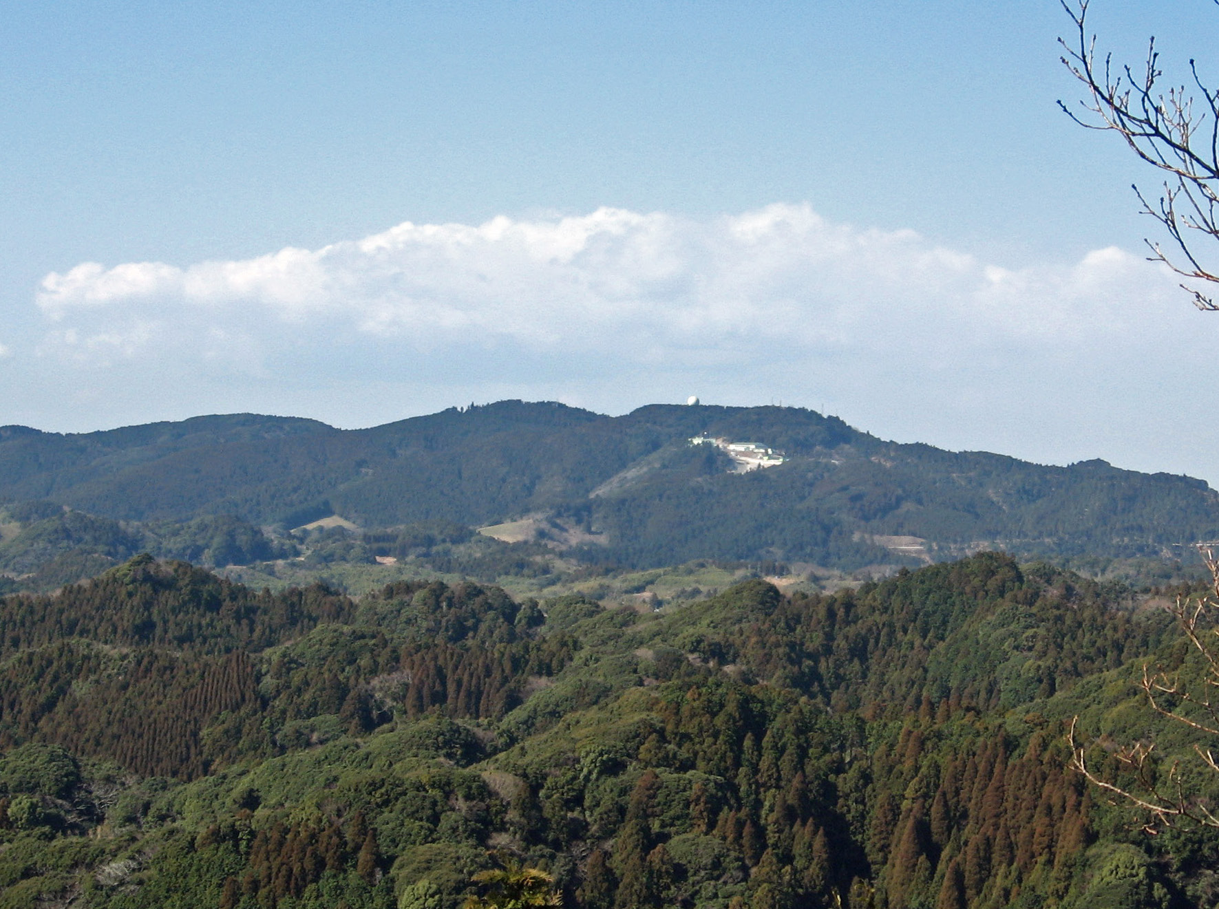 Mount Mineoka-Atagoya seen from the southeast. Taken from Mount Karasuba.